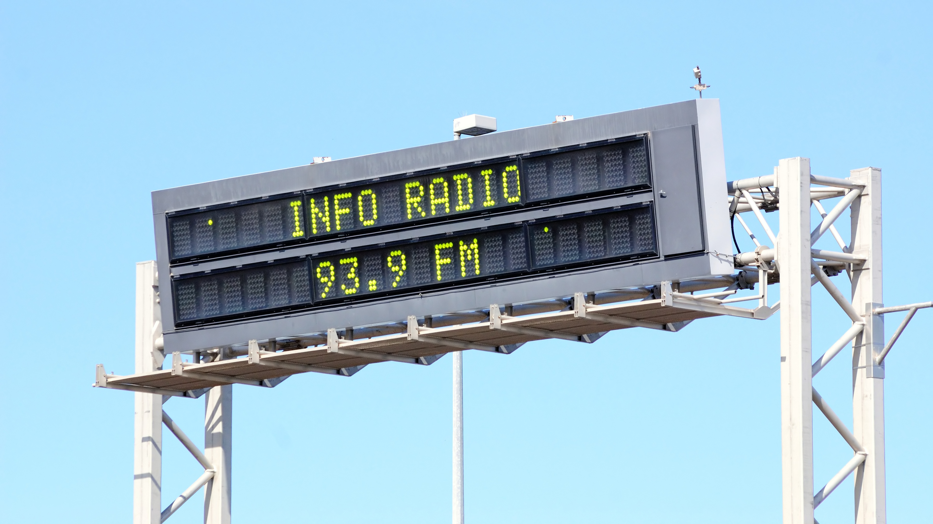 Infoboard at Confederation Bridge